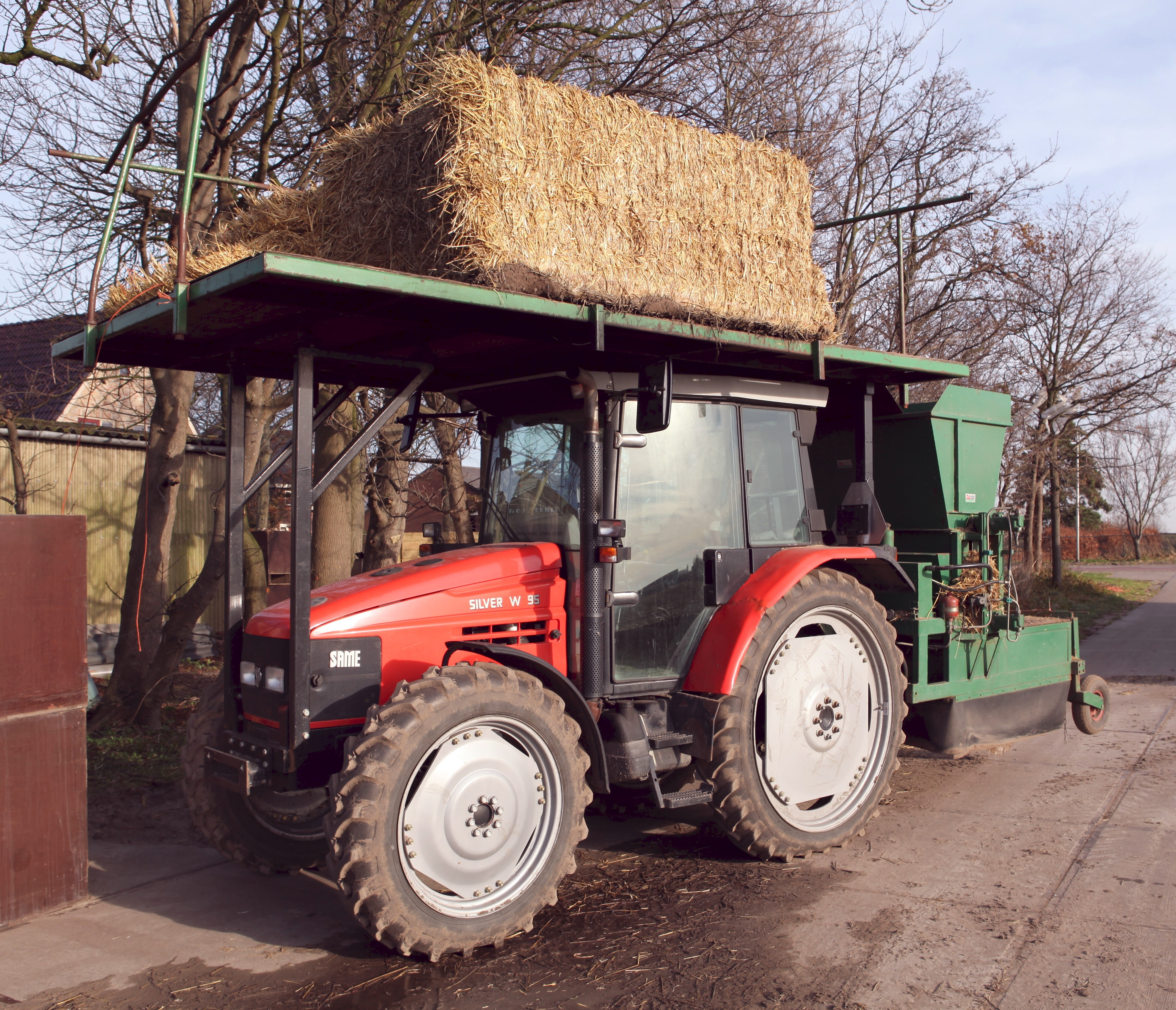 Customized SAME Silver W 95 with a straw shredder and rectangular straw bales on top